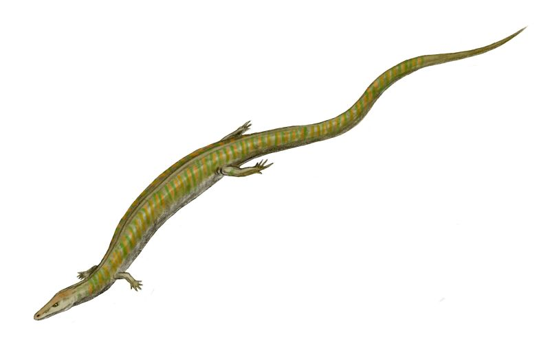 Kaganaias hakusanensis, an aquatic lizard from the Lower Cretaceous of Japan, pencil drawing